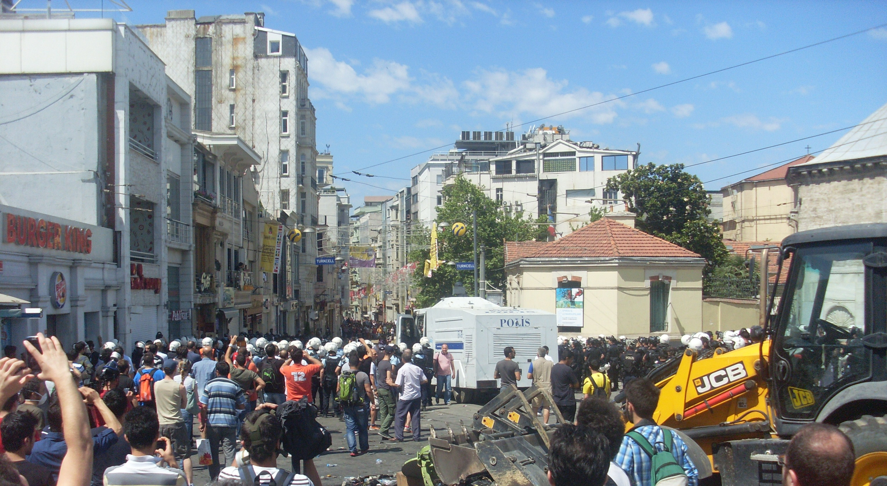 2013 Taksim Gezi Park protests P5, Protesters clashing with the police in Istiklal Avenue on 1 June 2013